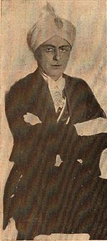 Stoil Stoilov